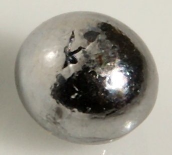 Rhenium bead, 0.5 x 0.5 cm.